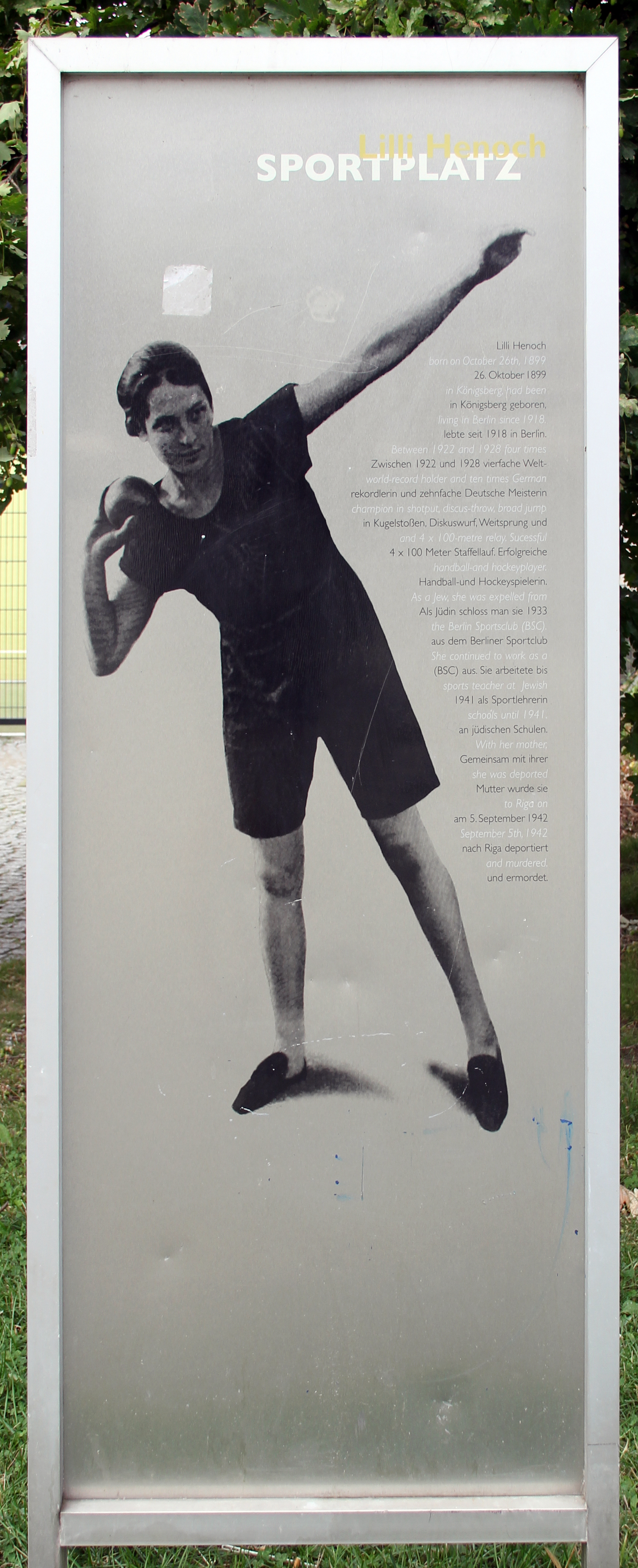 Memorial plaque, Lilli Henoch, Askanischer Platz 6, Berlin-Kreuzberg, Germany